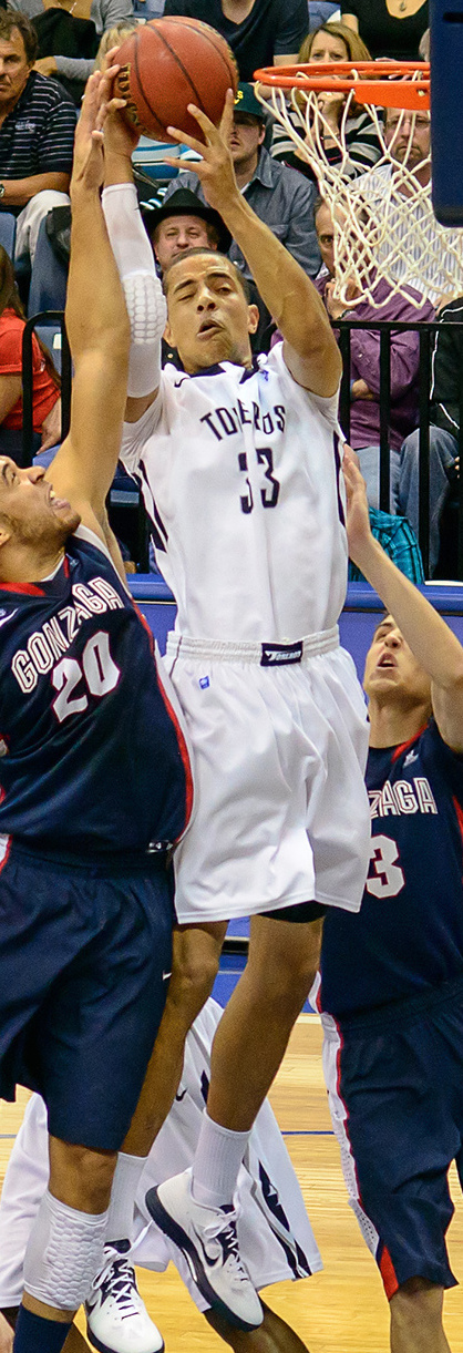 USD Toreros vs Gonzaga Bulldogs 02-02-13